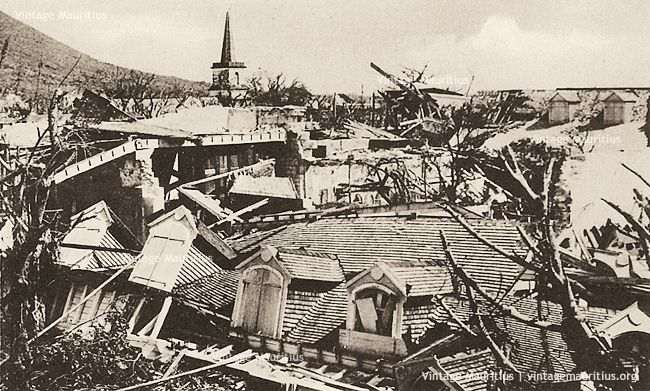 1892 photo of Port Louis, Mauritius, in the aftermath of the cyclone. The Cathedral of St James is still standing; the spire is visible in the background.